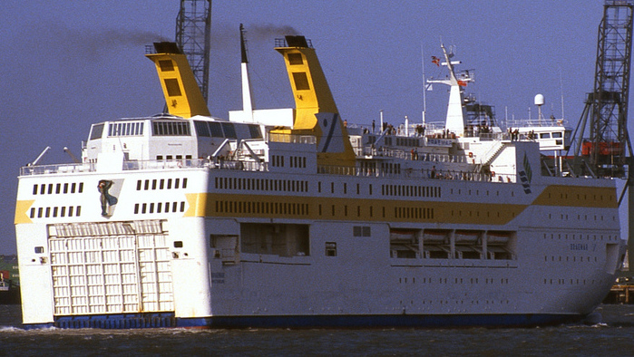 Built. 1980 Yard. Wärtsilä Turku Oy Ab, Finland. Operator. Fred Olson Route. Harwich – Oslo – Kristiansand 1985-1989 Length. 145, 19 m Gross Tonnage. 14,300 Passengers. 2000 Freight Capacity. 486 cars Speed. 21.3 Knots Former Name. Viking Song Status. Current “Regina Baltica” Fred Olsen’s new luxury ship M.V. Braemar was introduced onto the Harwich/Norwegian route on the 1st June 1985, at 14,300 tons; she had a capacity for 2,000 passengers and 486 cars. Braemaer is typically Scandinavian; it had an amazing tropic garden lounge, a sauna bath, a swimming pool and its own jogging track. 15/02/1980 Launched. 15/05/1985 Renamed Braemar 08/06/1985 Oslo-Kristiansand-Harwich. 1985-1989 Oslo-Hirtshals-Harwich. 1989-1989 Kristiansand – Hirtshals, Kristiansand – Harwich. 16/12/1990 Sold to Rigorus Shipping Co Ltd, Limassol, Cyprus. 27/03/1996 Renamed Anna k. 06/1996 Sold to Empremare Shipping Co Ltd, Limassol 28/06/1996 Renamed Regina Baltica. Photo From John Wray